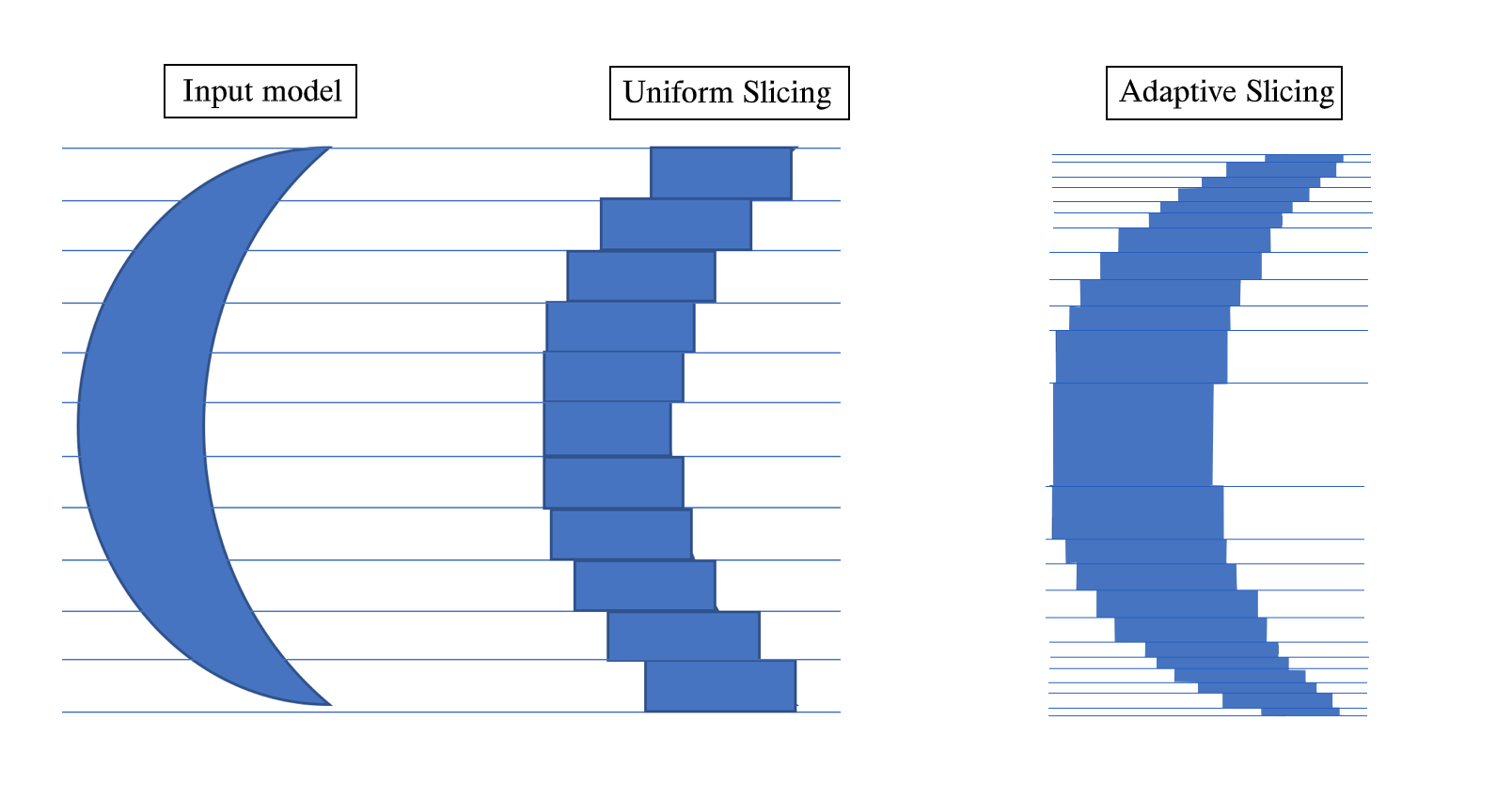 Comparison of uniform and adaptive slicing